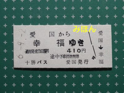 Ticket Tokachibus